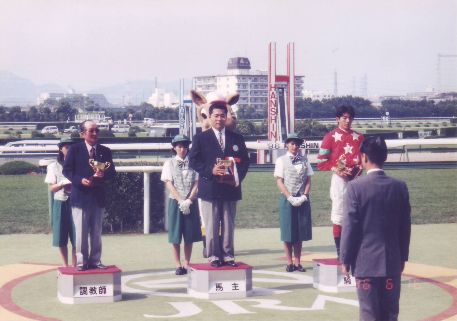 Isao Miyamoto (Left. Jockey and Horse trailer from Japan).